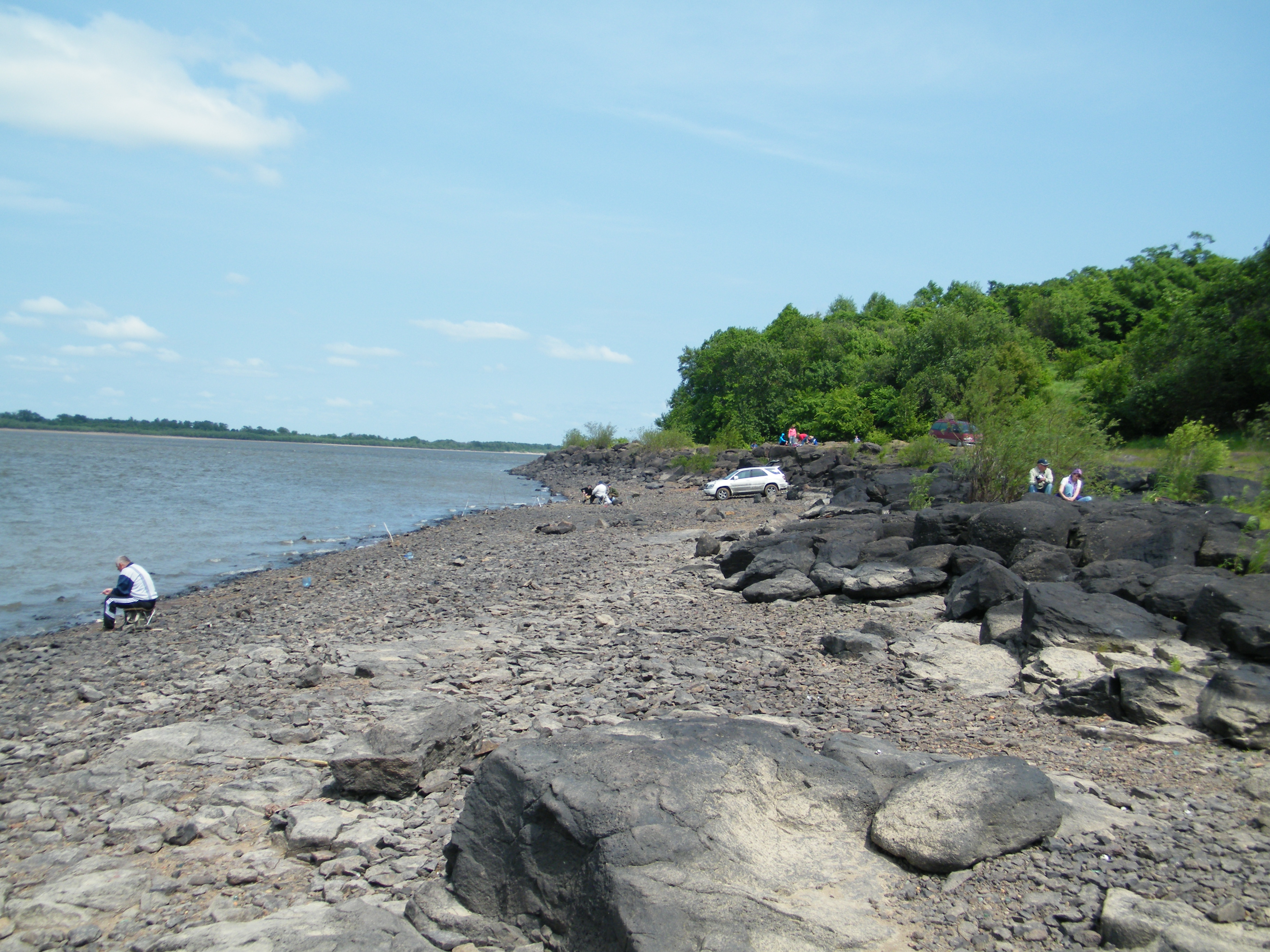 Petroglif of Sikachi-Alyan